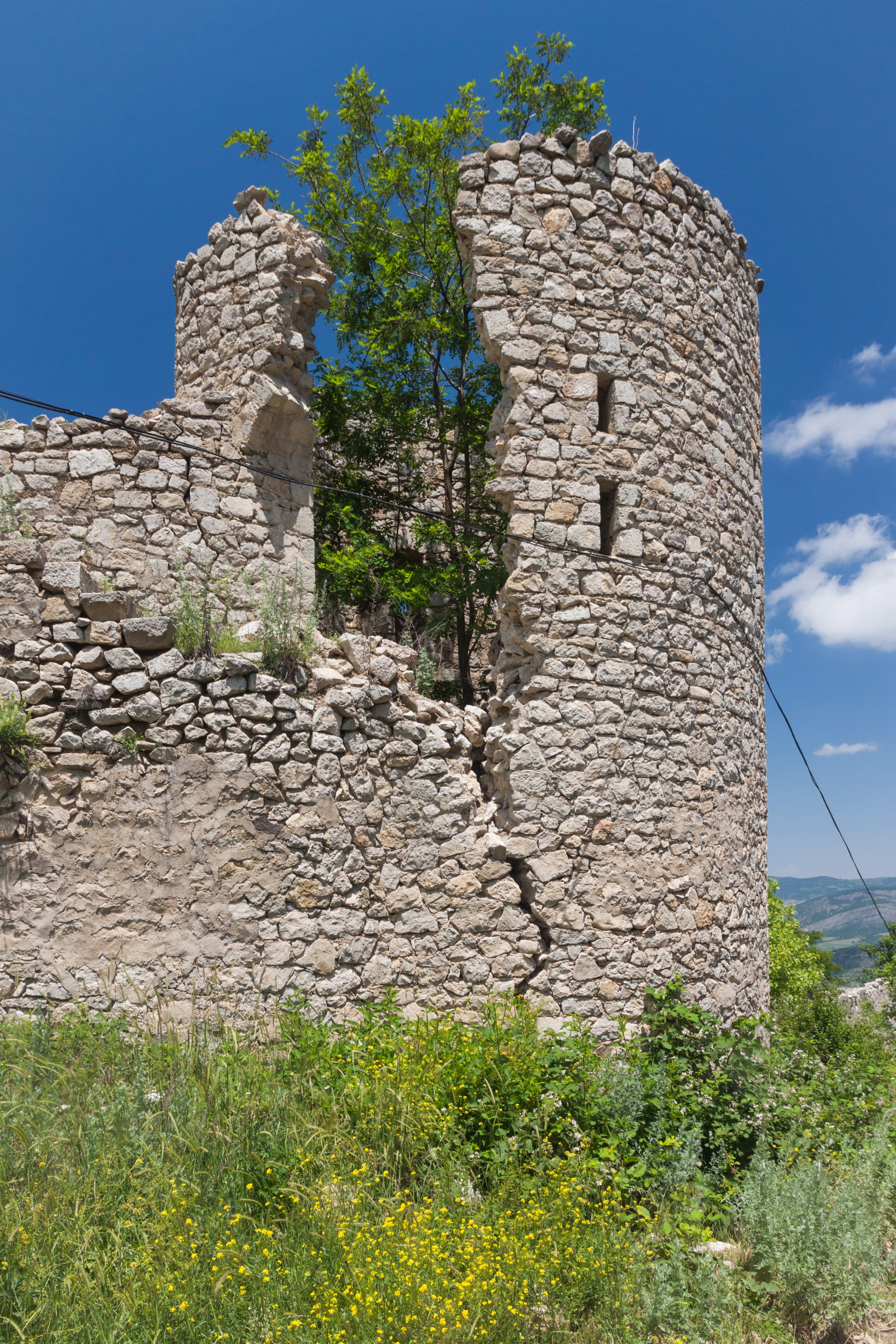 Shusha fortress. Shushi/Shusha, Nagorno-Karabakh.